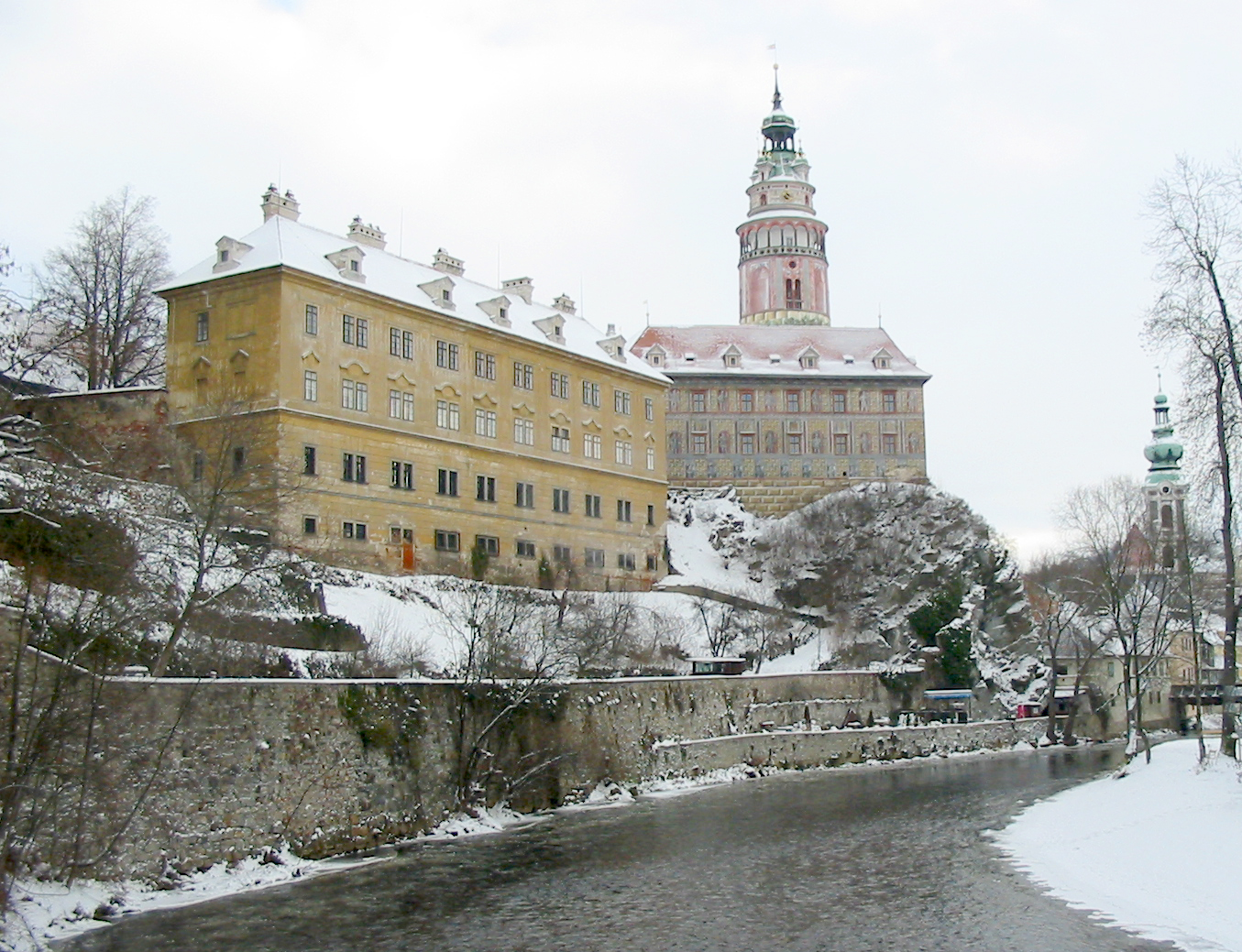 The castle of Český Krumlov as seen from the river bank